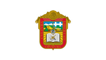 Flag of the State of Estado de Mexico, Mexico.